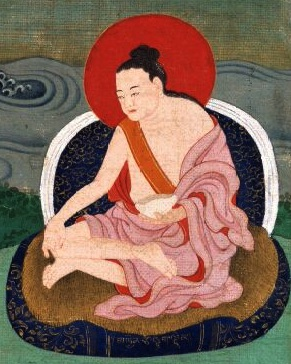 Khyentse Tokden, 14th Century Drukpa Kagyu monk